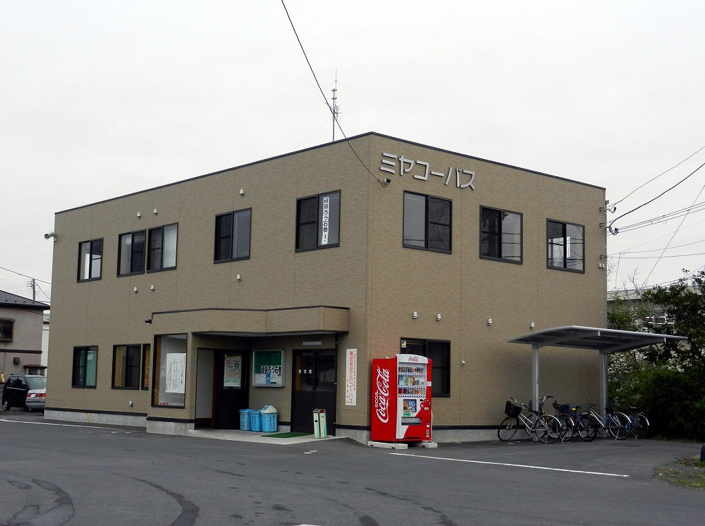 Miyakoh Bus Ishinomaki Depot